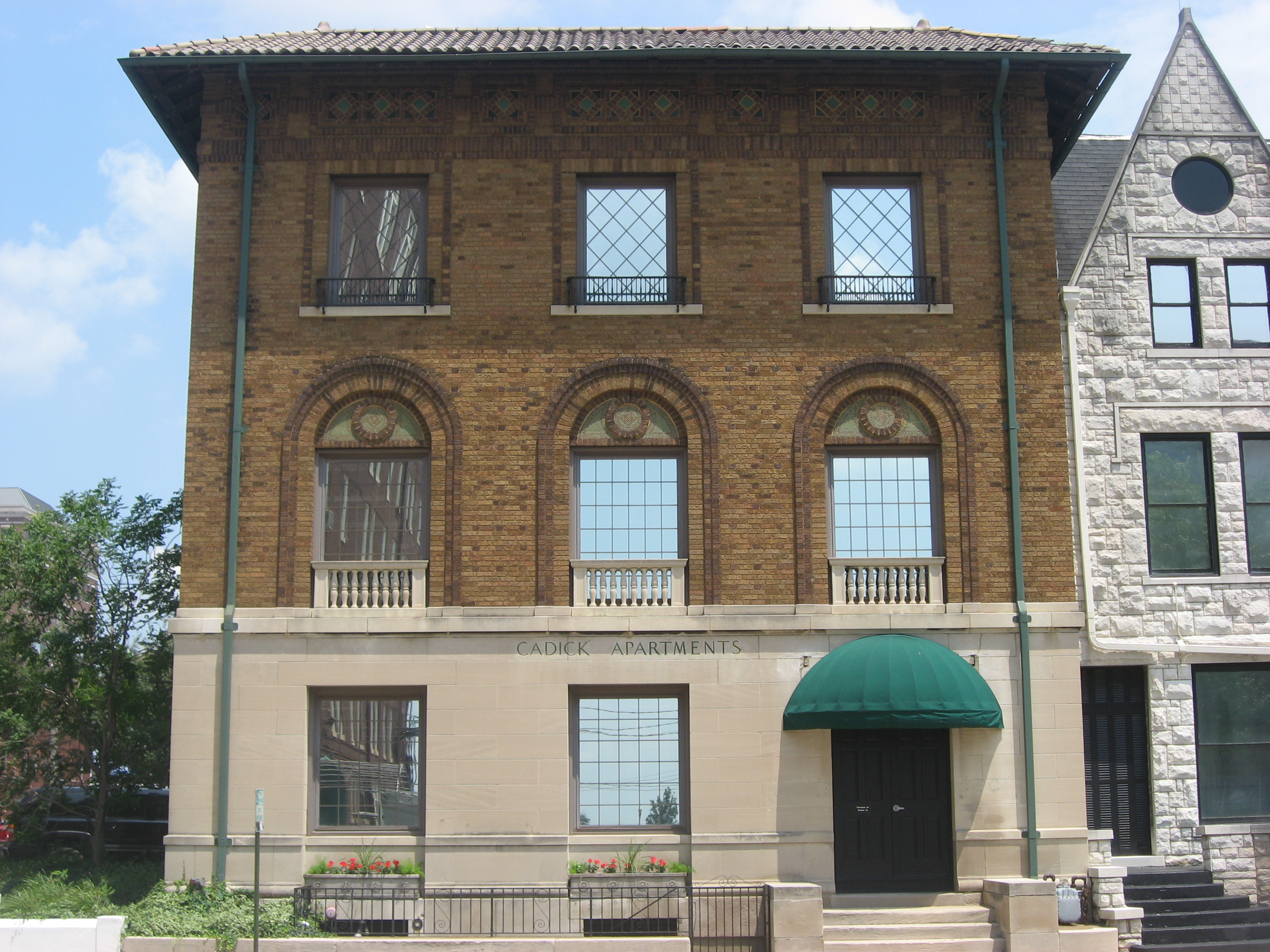 Front of the Cadick Apartments, located at 118 SE. First Street in Evansville, Indiana, United States. Built in 1916, it is listed on the National Register of Historic Places.